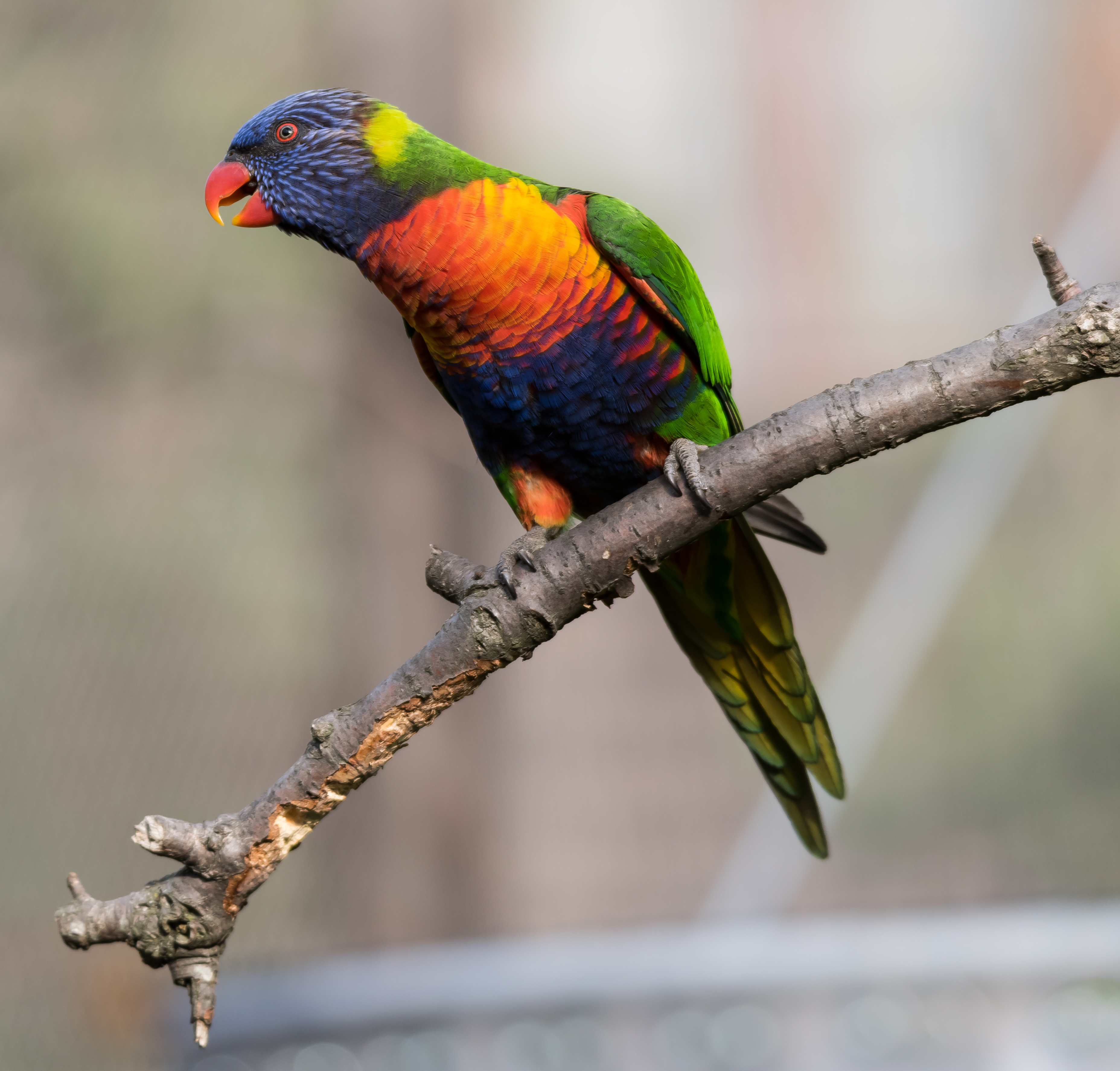 Lens: Tamron 150-600mm. Cropped image